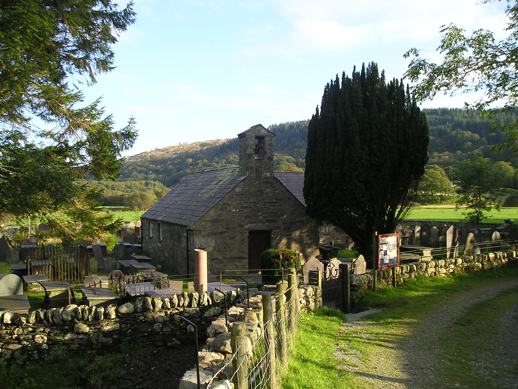 Photograph taken by me on 05/10/2005